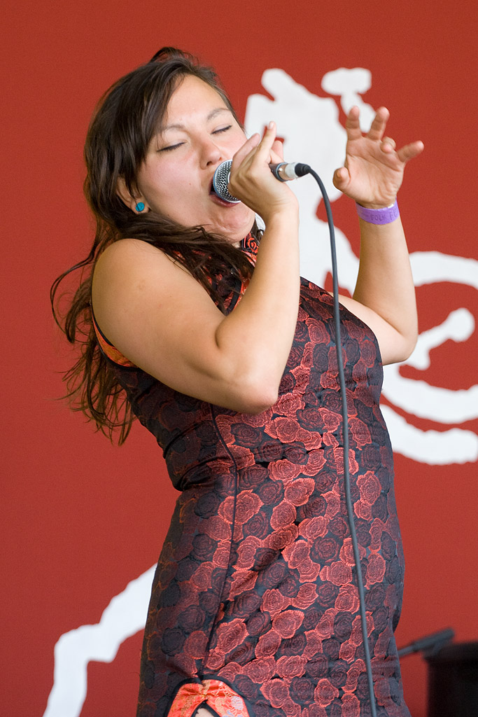 Tagaq at the Edmonton Folk Music Festival in August 2007